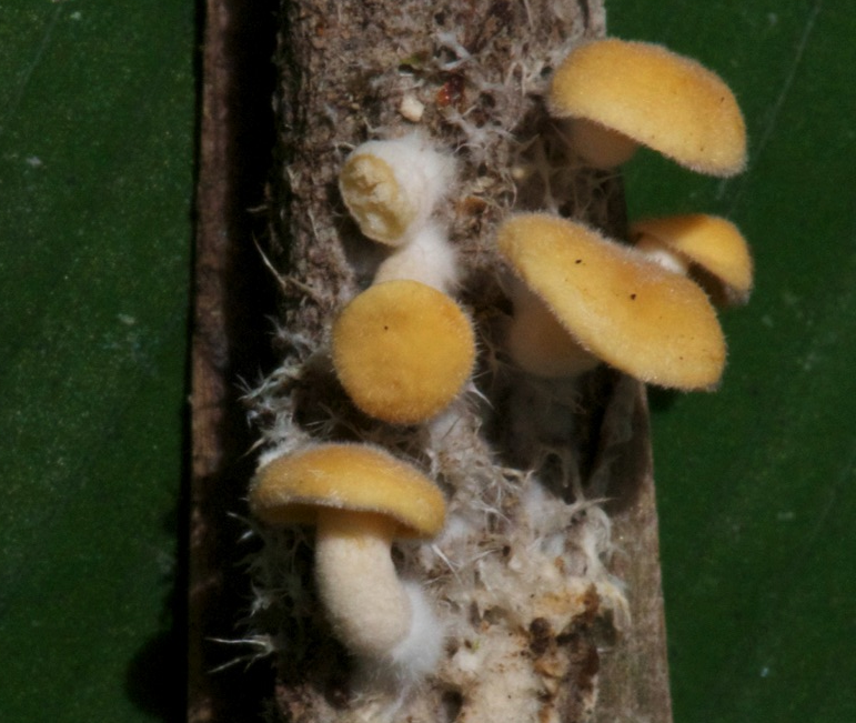 cropped version of